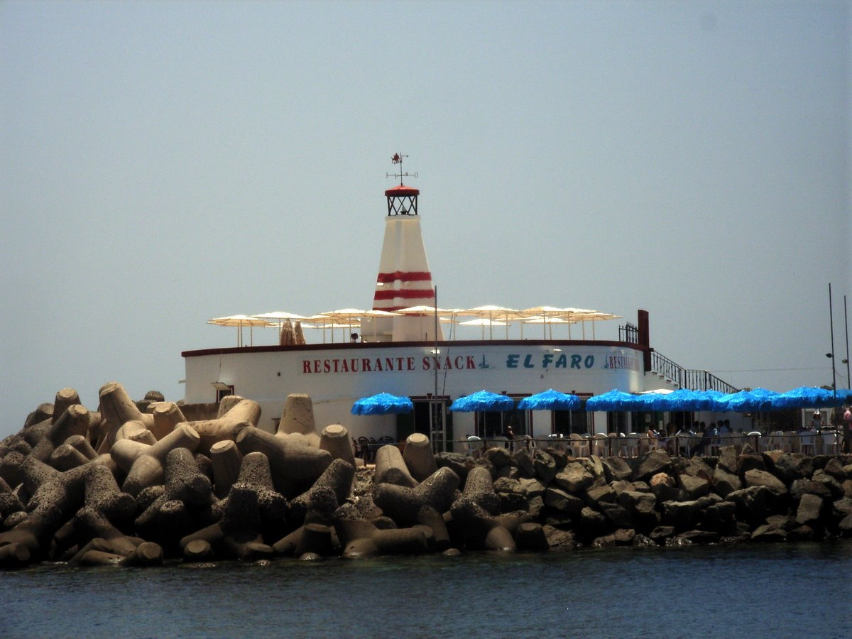 Faro